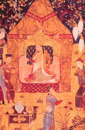 Temujin proclaimed Chinggis Khan, from a manuscript of Rashid al-Din. Attended by courtiers, and sons Jochi and Ogedei stand on the right